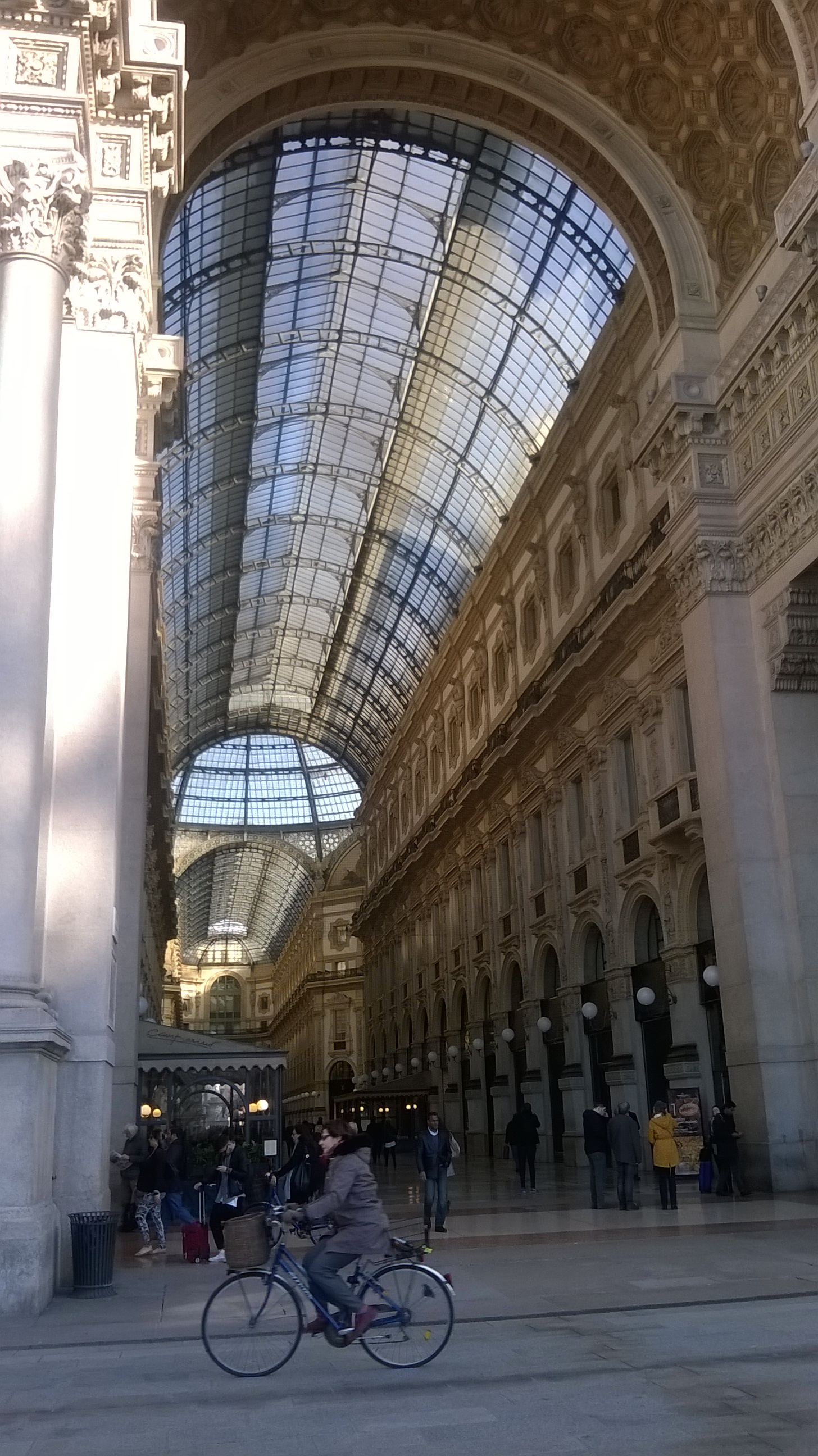 Galleria Vittorio Emanuelle II (Arcades)